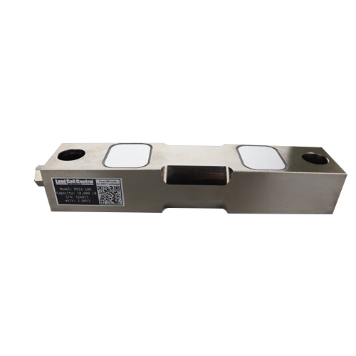 DES1 double ended shear beam load cell